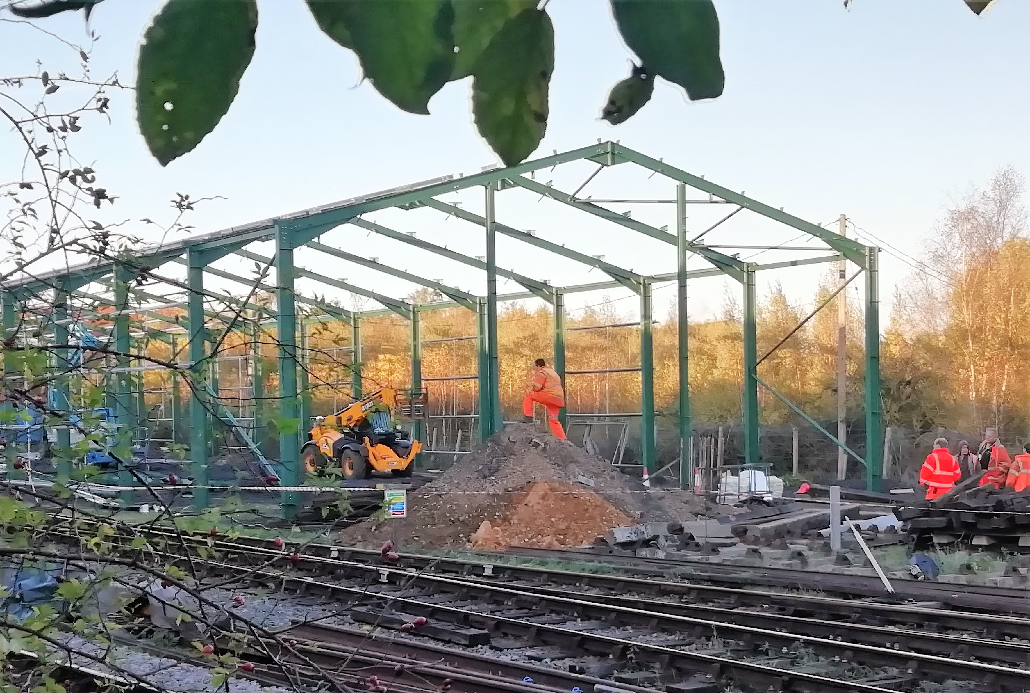 The new Dereham loco shed on the Mid-Norfolk Railway under construction in late 2018.